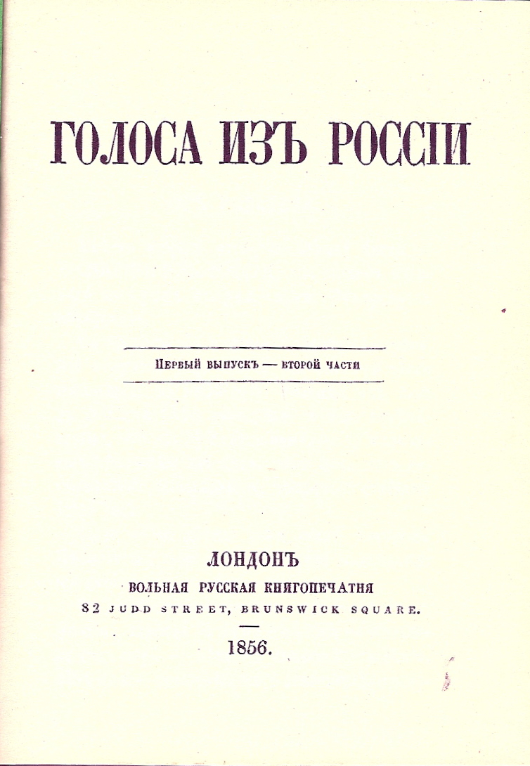 The title page of issue "Golosa iz Rossii" ("Voices from the Russia"), the exile-russian publication of Alexander Herzen and Nikolay Ogarev. London, 1856.